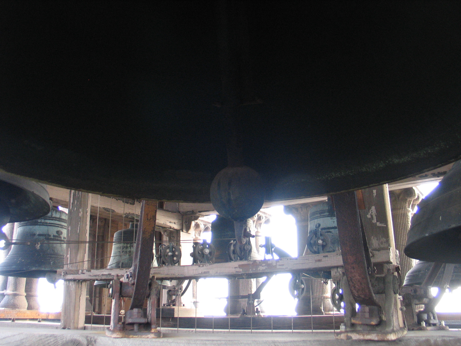 Bells in Altgeld Hall Tower, University of Illinois at Urbana-Champaign